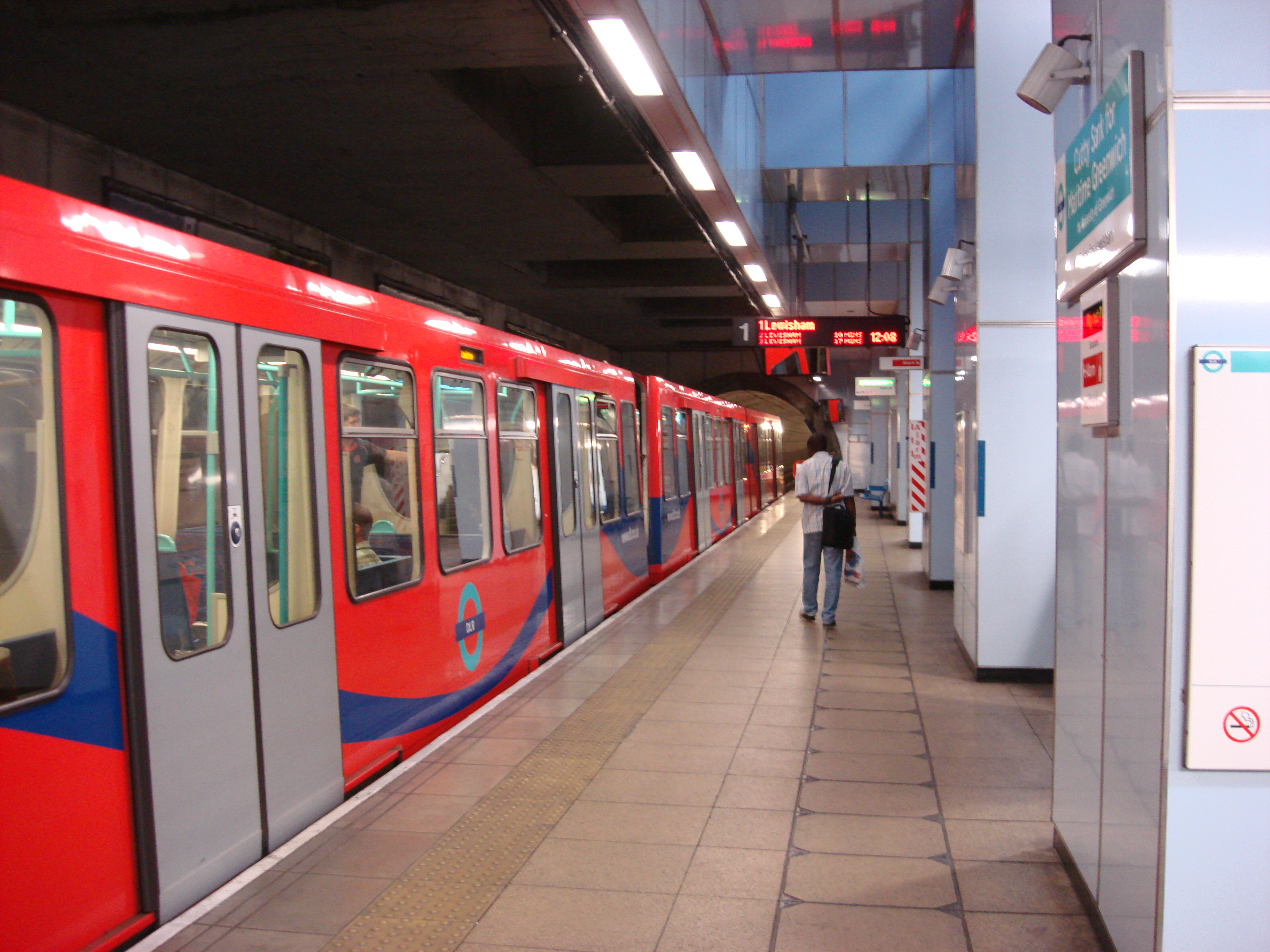 Cutty Sark DLR station